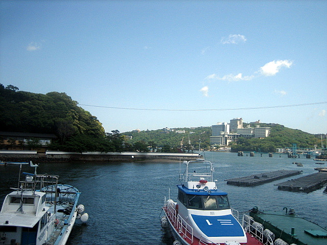 The Port of Toba, Mie, Japan.